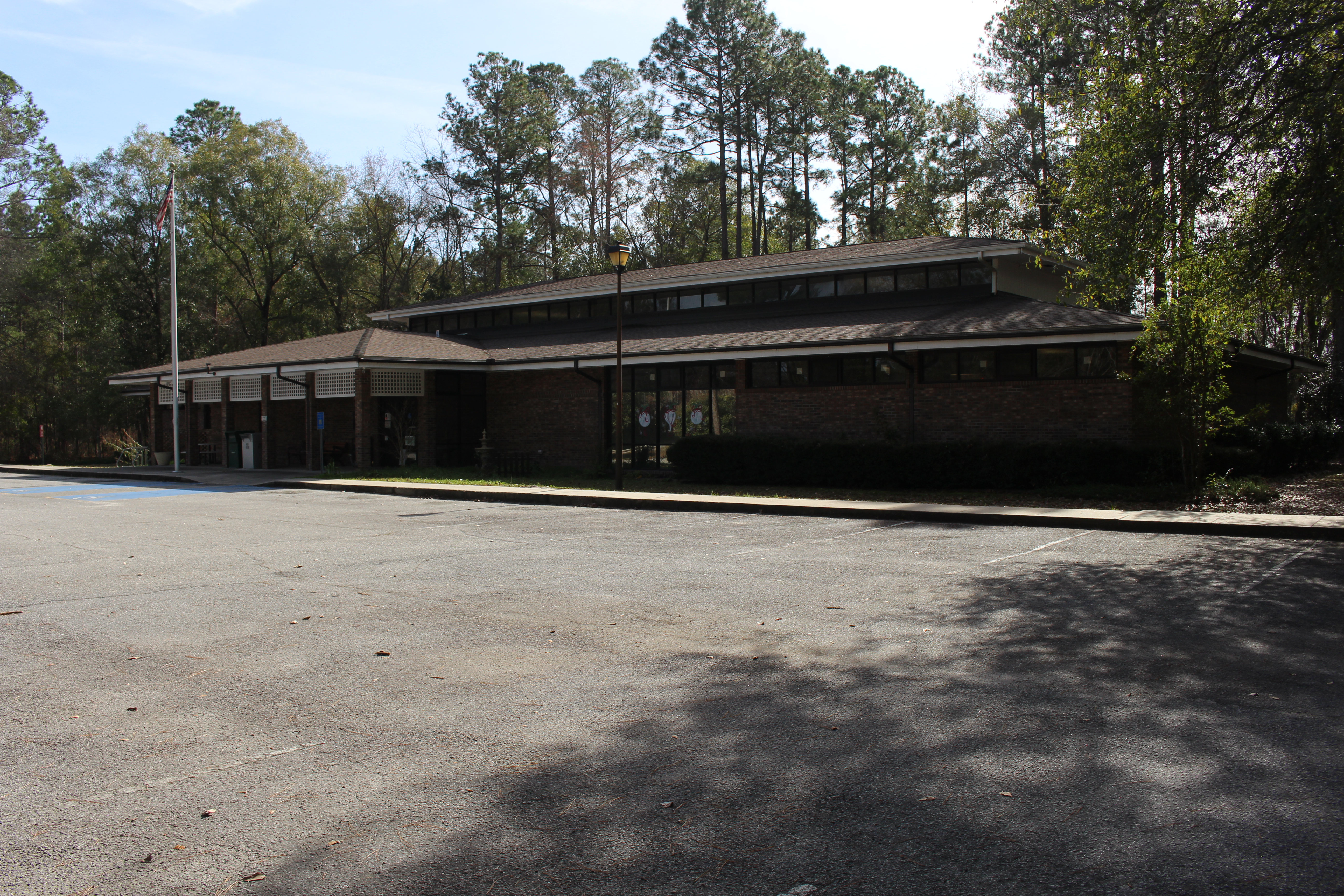 Brantley County Public Library, 14046 E Cleveland St., Nahunta, Brantley County, Georgia